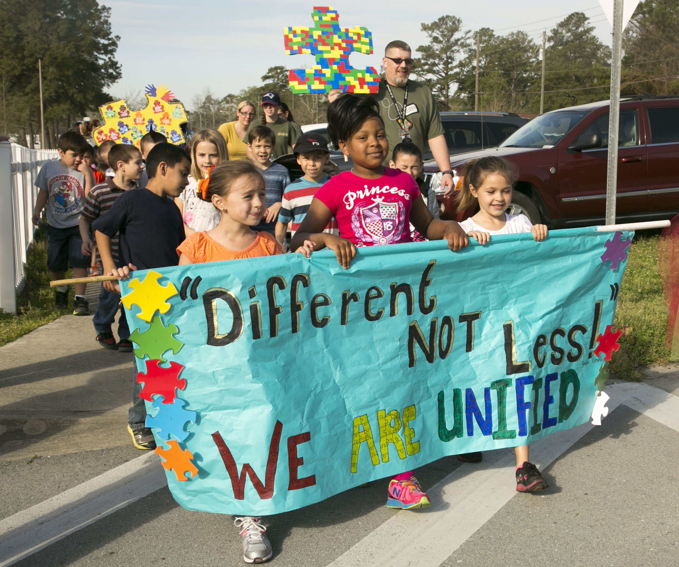 Students and family members from Johnson Primary School march, holding signs and banners in support of autism awareness aboard Marine Corps Base Camp Lejeune, Friday. According to the center for disease control and prevention, one in every 68 children in the U.S. is diagnosed with the disorder.